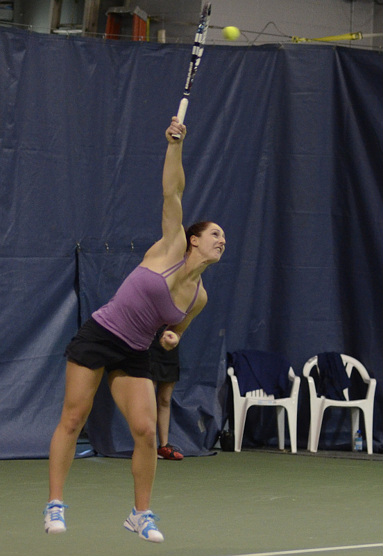 Gabriela Dabrowski